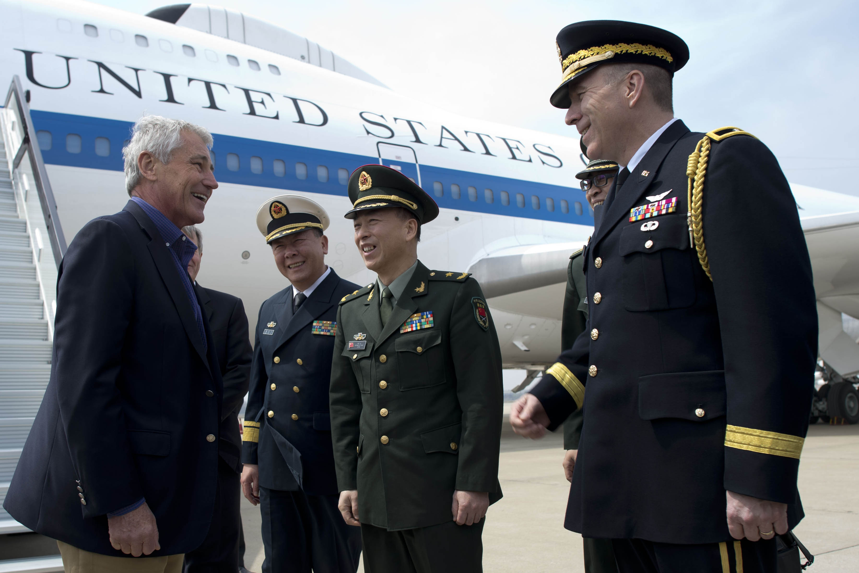 U.S. Defense Secretary Chuck Hagel, left, is greeted by U.S. Army Brig. Gen. Mark W. Gillette, right, U.S. defense attaché to China, and Chinese military officers in Qingdao, China, April 7, 2014. Hagel visited the Chinese aircraft carrier Liaoning while in Qingdao, the first foreigner to do so.中文（台灣）: 2014年4月7日，美國國防部長查克·哈格爾（左）在中國青島受到美國陸軍駐華武官季來明准將（右）和中國軍官的歡迎。哈氏在青島期間成了首位訪問遼寧號航空母艦的外國人士。 Read more